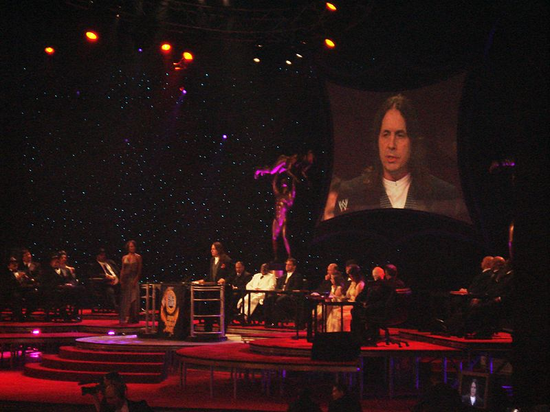 2006 WWE Hall of Fame ceremony at the Rosemont Theater.